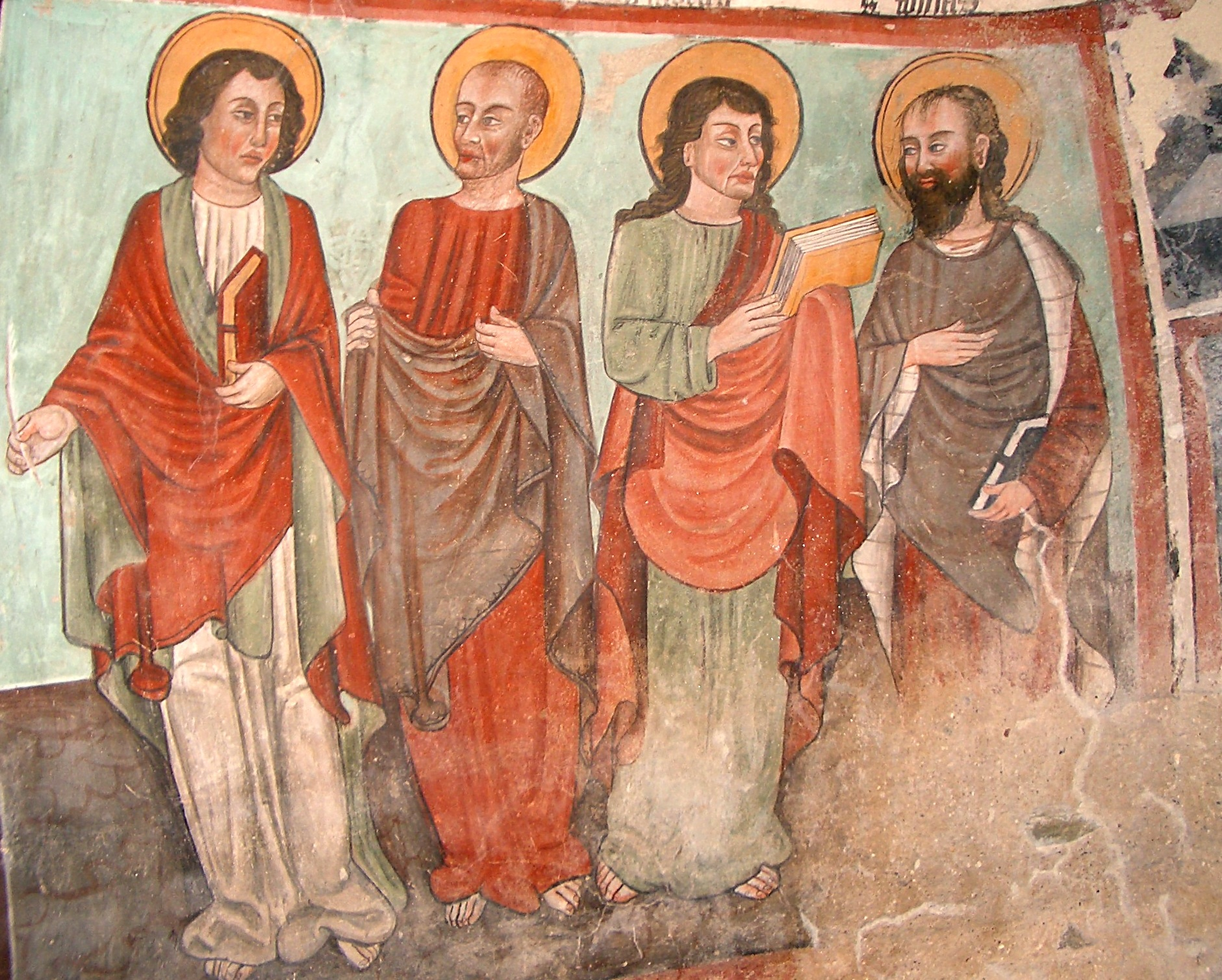 Unknown painter (second half of XV century), Apostles, frescoes in the apse of the church, Pieve di Santa Maria di Vespiolla, Baldissero Canavese (Turin)